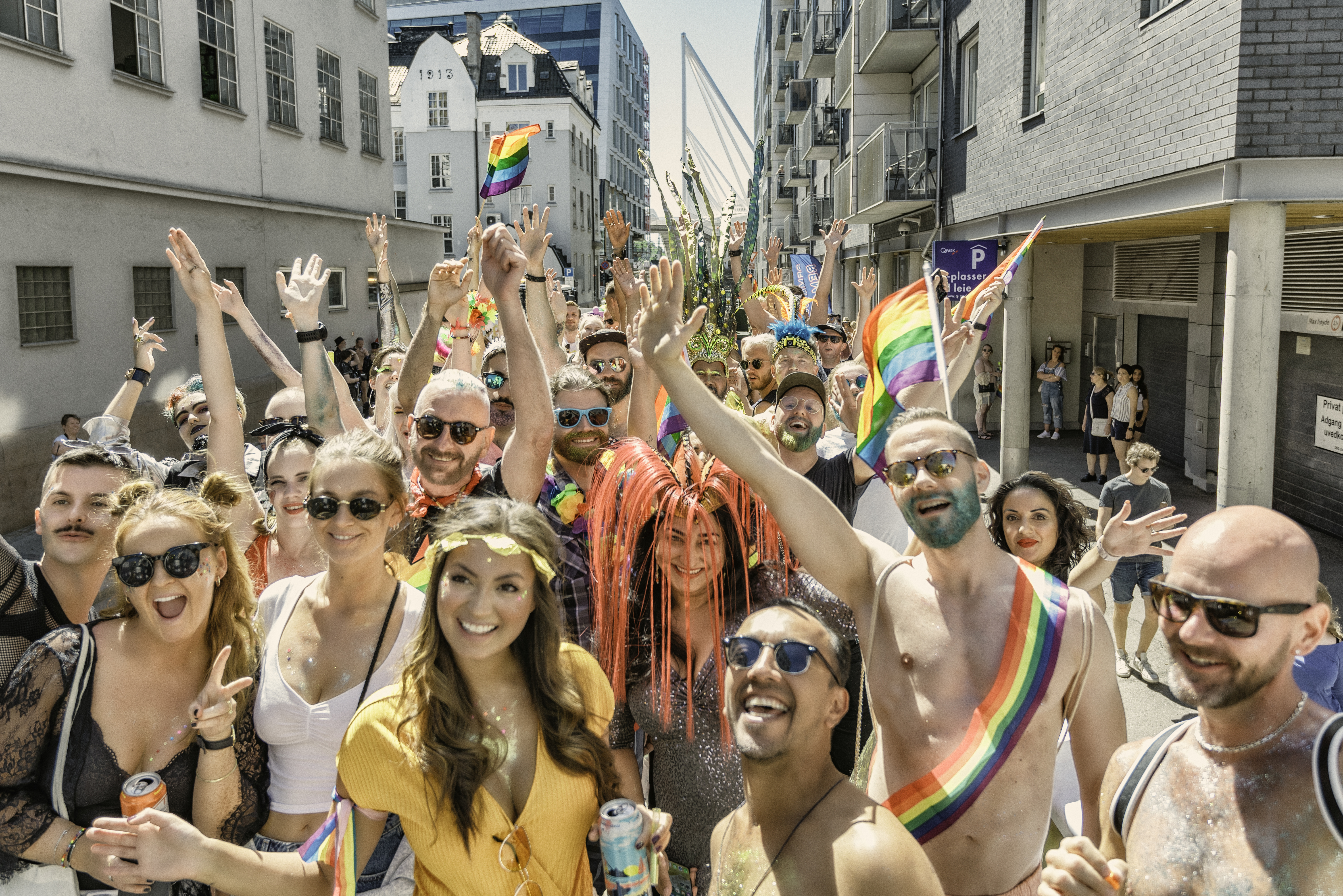 Oslo Pride ParadeLocation: Oslo NorwayEvent type: Oslo Pride ParadeDate or year: 2018